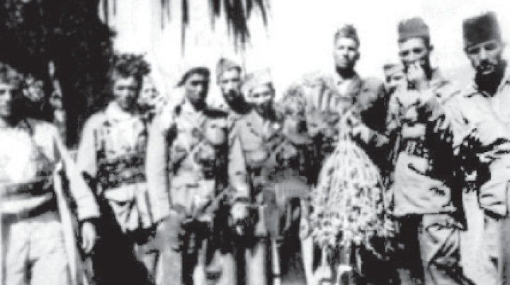 Leaders of Aures in a photo with Amirouche